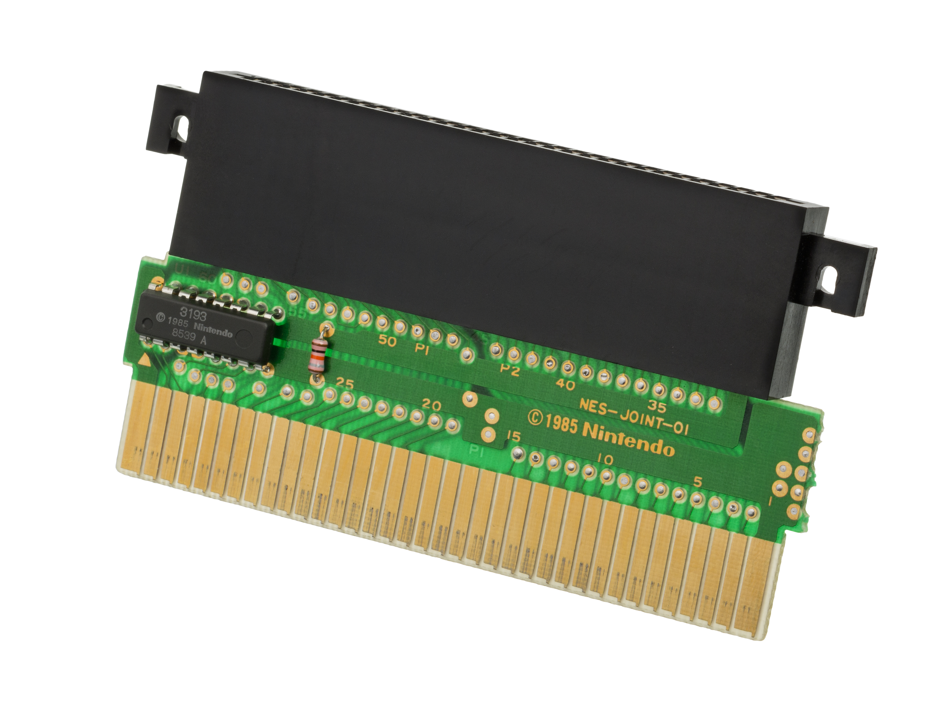 A Nintendo pin adapter for the Nintendo Entertainment System (NES). These were included in a few very early games for the NES, like Gyromite, that used Famicom boards in the cartridges. Since the two consoles have different cartridge pin slots, an adaptor was needed. The extra pins were notable for being for the lockout chip, which can be seen on the board.